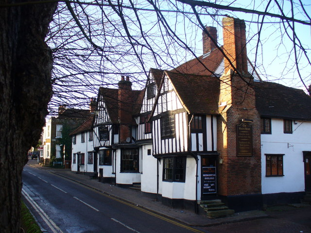 The Boar's Head Wonderful old half-timbered inn on Windhill, Bishop's Stortford, opposite the parish church.